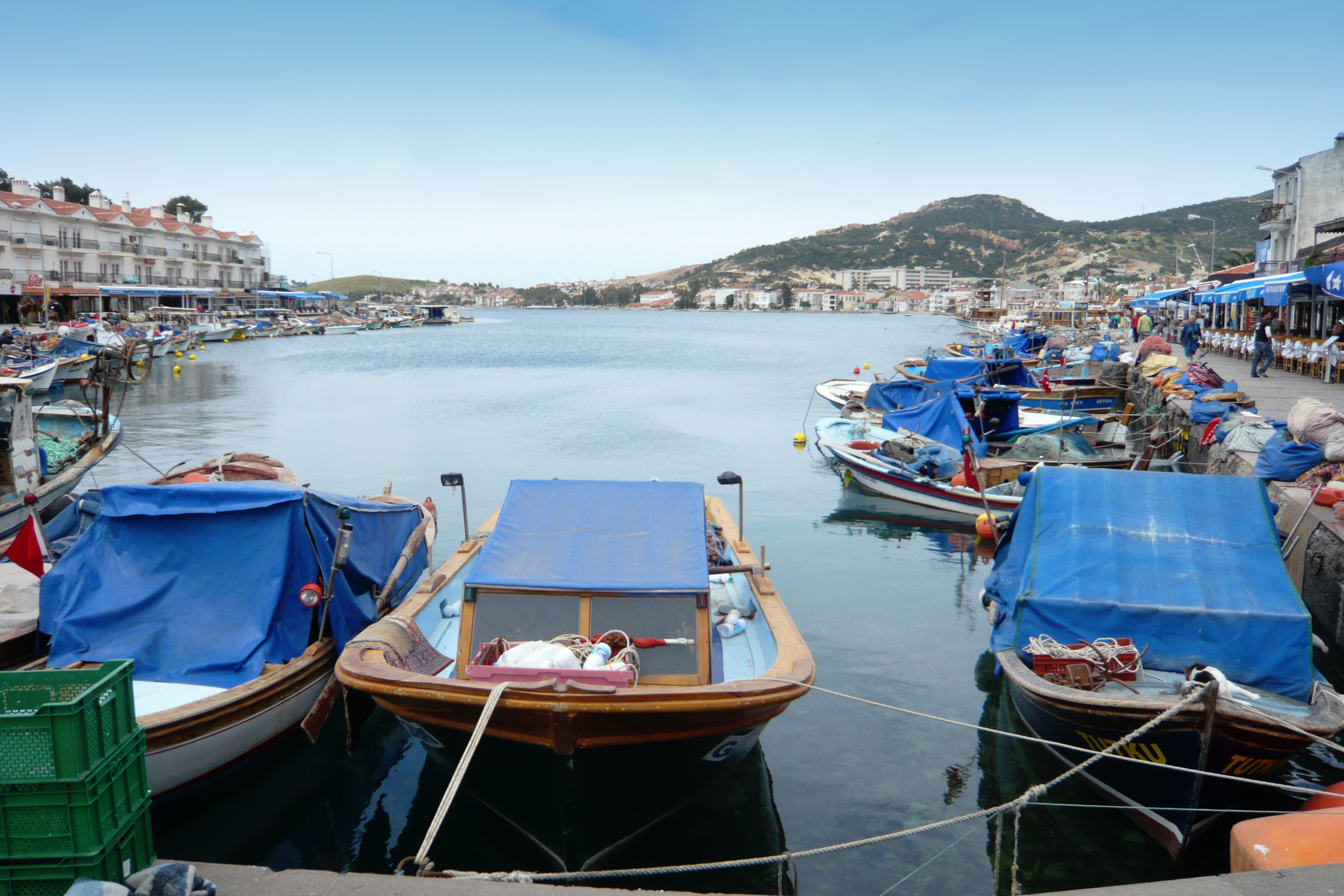 Harbor of Foça, Turkey